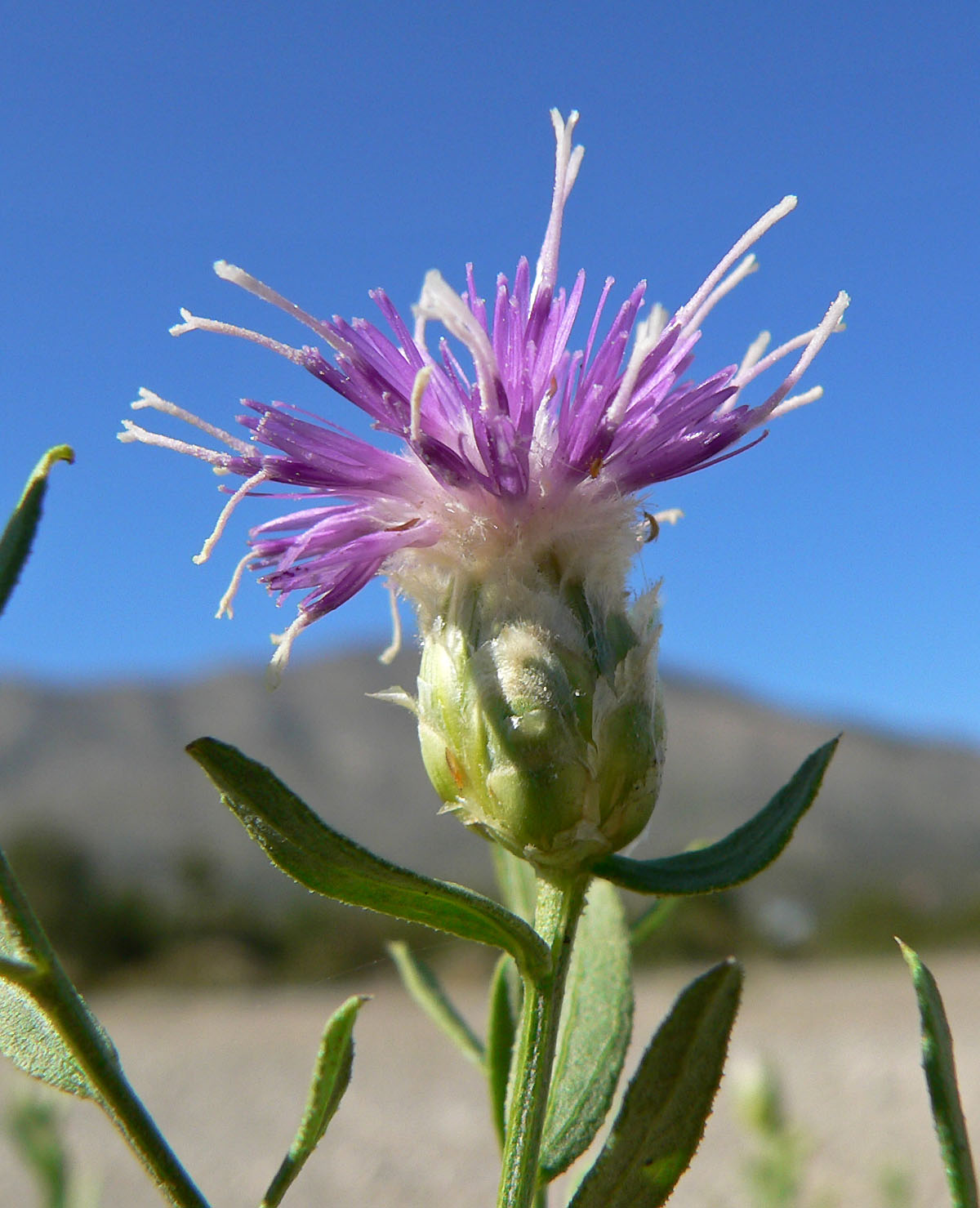 Rhaponticum repens (syn. Acroptilon repens) near Cold Creek Fire Station, Spring Mountains, southern Nevada (elev. about 1800 m)